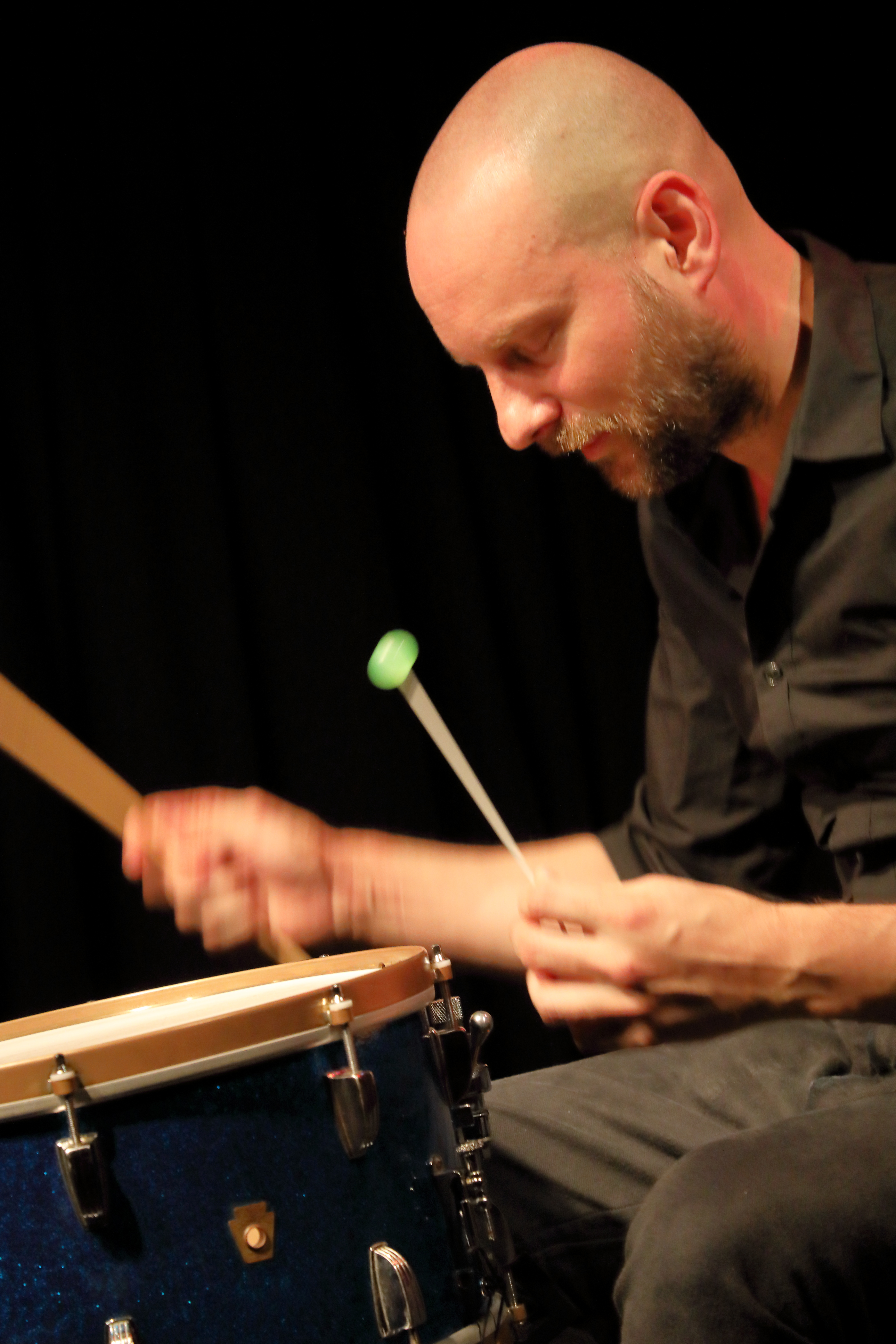 This evening at Club W71 "So Seet" are Sebastian Gramss (db), Etienne Nillesen (snare) and Axel Dörner (tr).